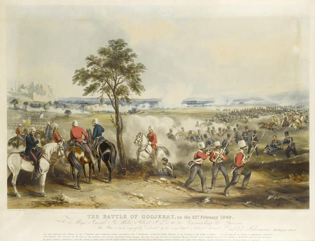 SIKH WARS MARTENS (HENRY) The Battle of Goojerat, on the 21st February 1849